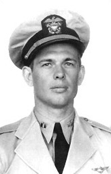 Richard Halsey Best. Lieutenant Commander Richard Halsey Best, USN, (24 March 1910 – 28 October 2001), shown here as a Lieutenant, was a dive-bomber pilot in the United States Navy, mostly noted for his leadership of dive bomber squadron VB-6 during the Battle of Midway, 4-6 June 1942.